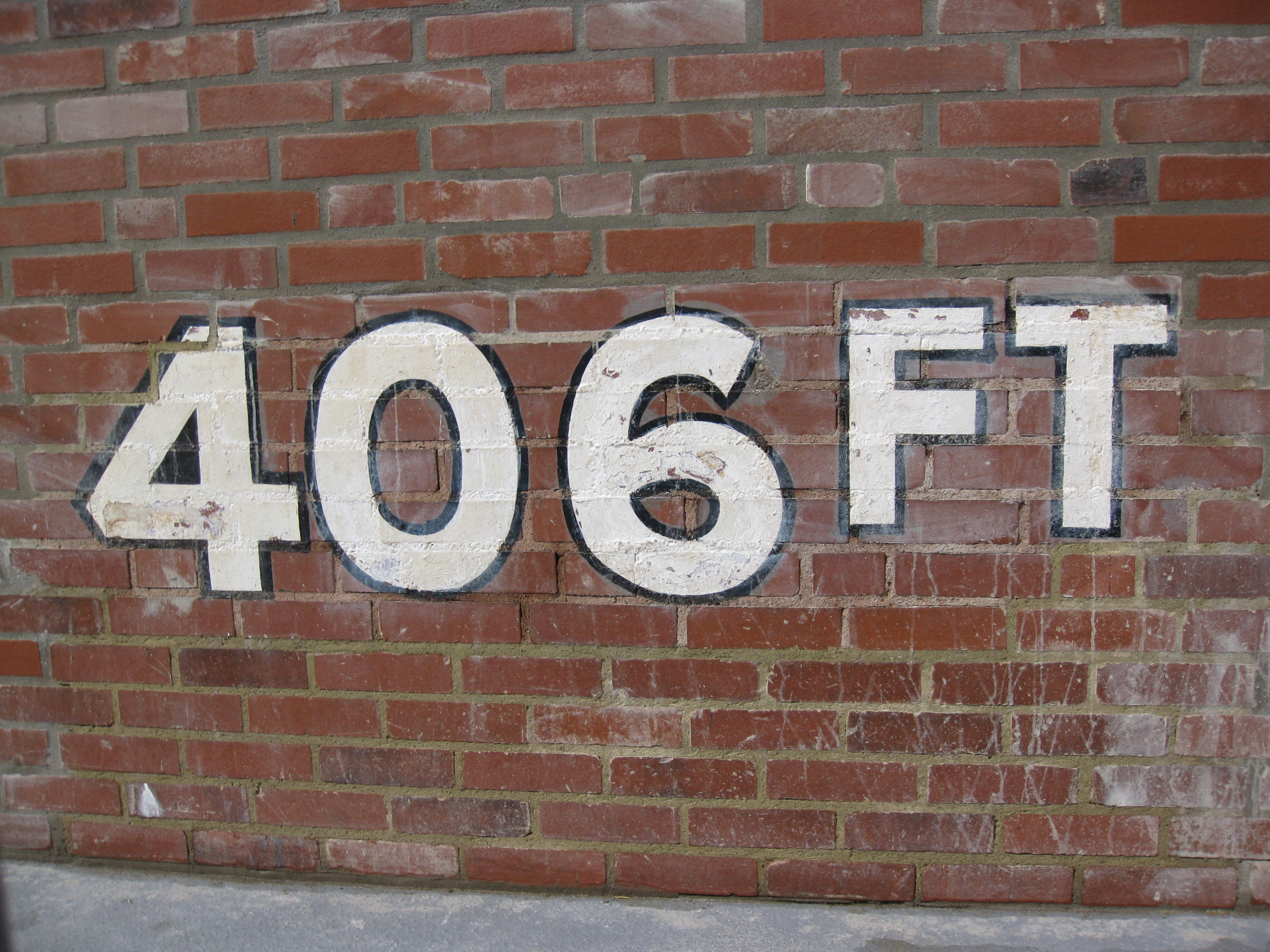 The brick outfield wall of Forbes Field at PNC Park.